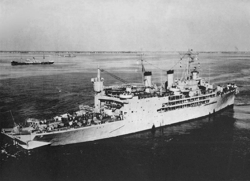 The U.S. Navy seaplane tender USS Albemarle (AV-5) probably in January 1959 after being rebuilt to support the Martin P6M Seamaster jet flying boat. Note the ramp and hoisting gear on the stern, which enabled the ship to bring the huge P6M on board without using a crane. The P6M program was canceled in August 1959 and Albemarle never serviced this aircraft.